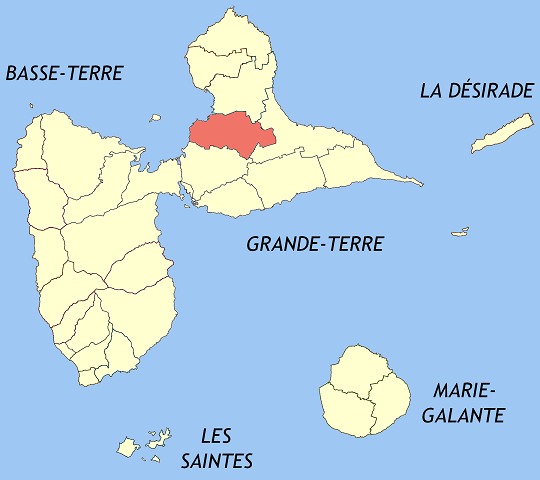 Location of Morne-à-l'Eau within Guadeloupe